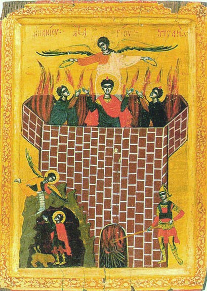 Icon of archangel Michael protecting Hananiah, Mishael, and Azariah in fire